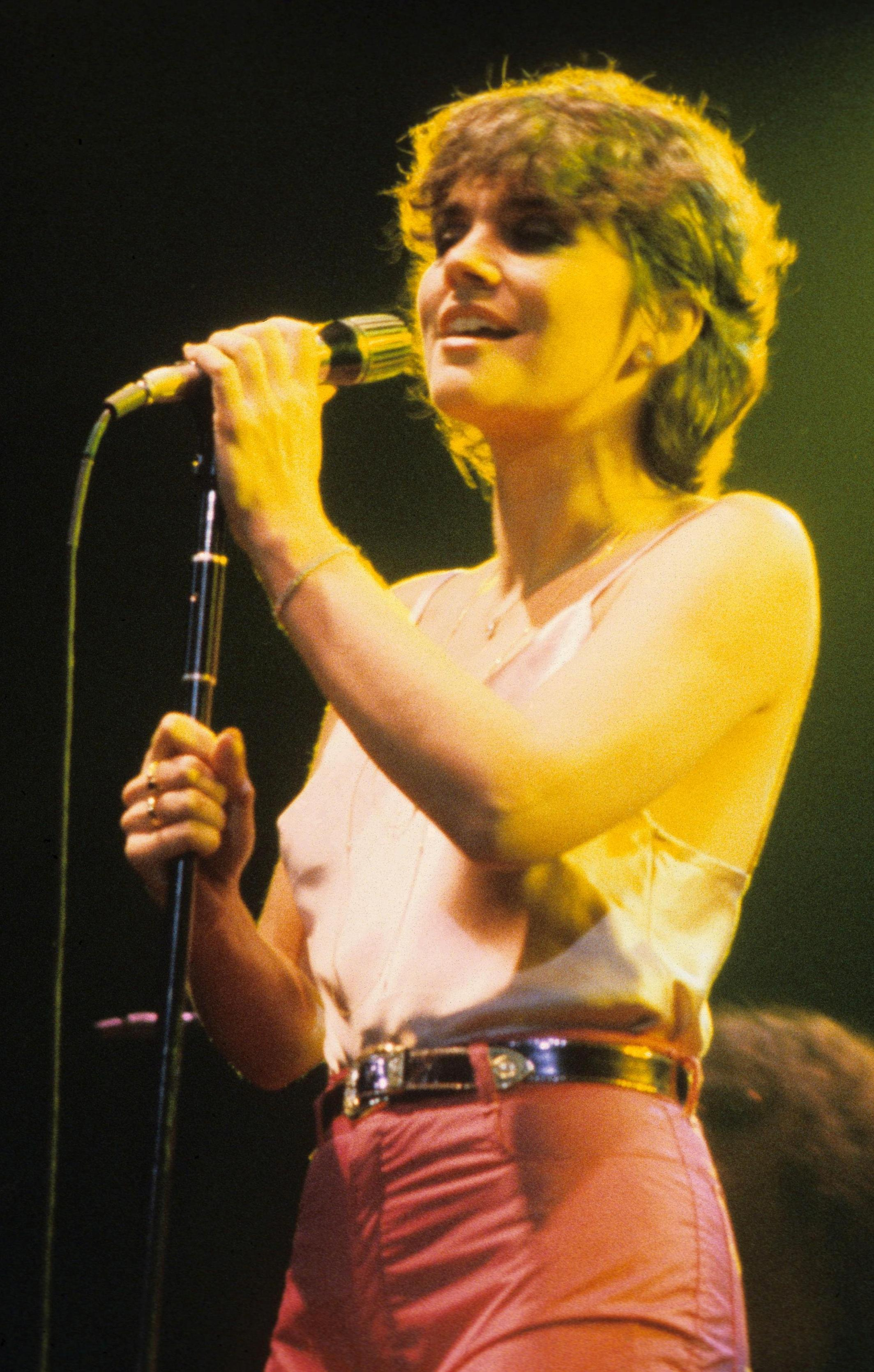 Linda Ronstadt performing at a WPLR Show in New Haven, Connecticut in the New Haven Veterans Memorial Coliseum